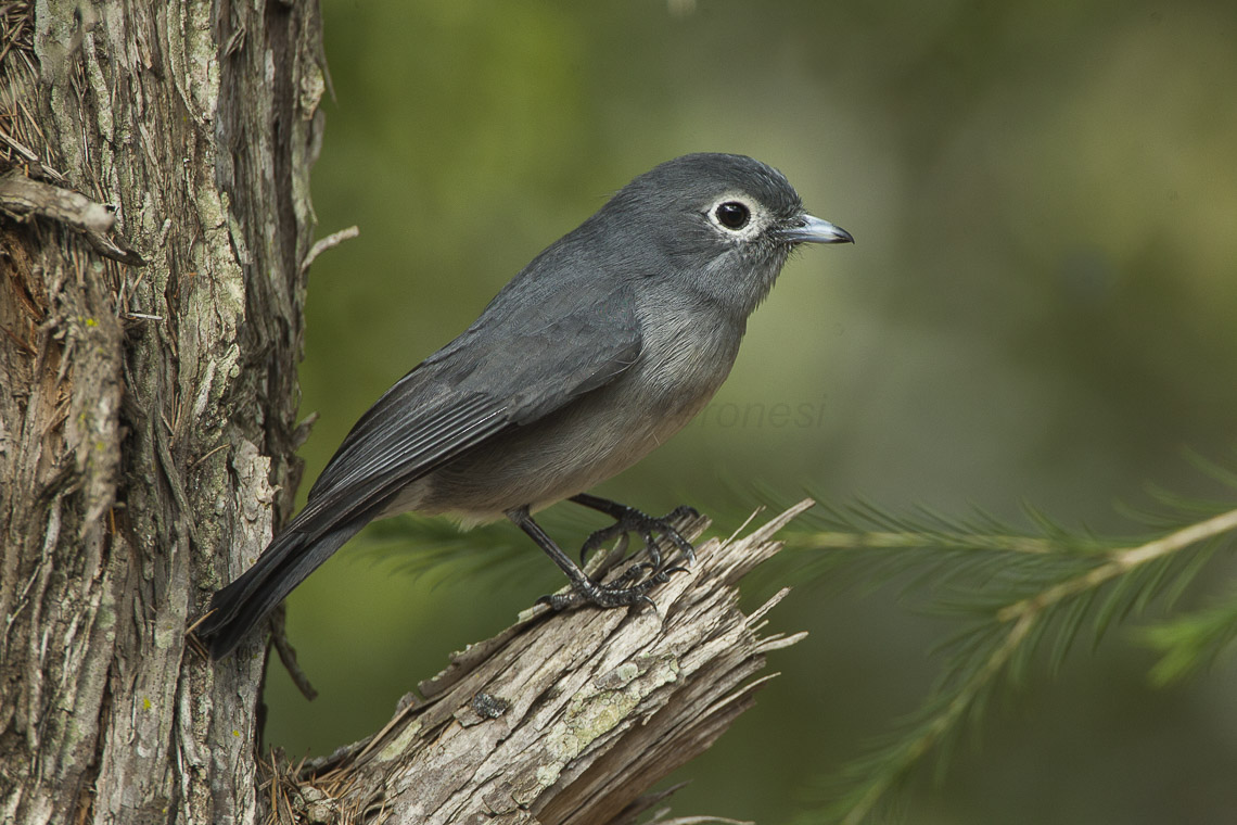 White-eyed Slaty-Flycatcher - Naru Moru Kenya 06_9199